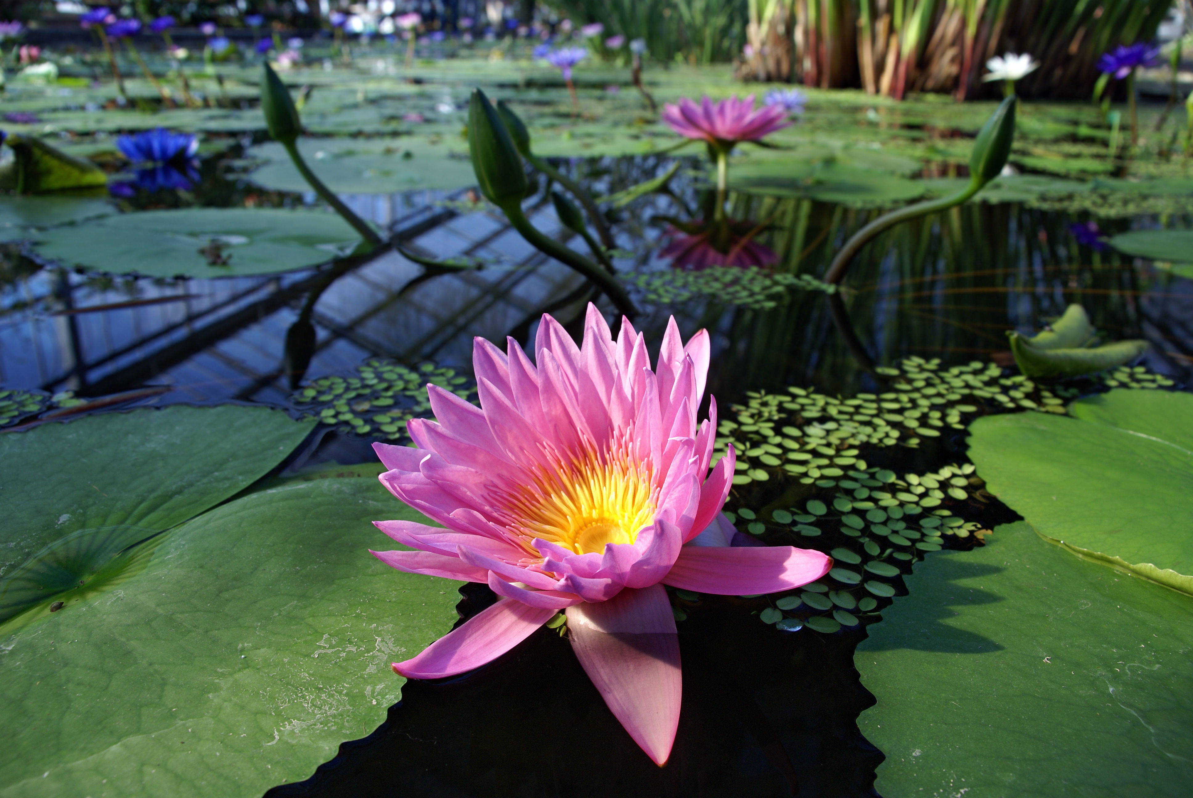 Kobe Kachoen (Kobe Flowers and Birds Garden) in Kobe, Hyogo prefecture, Japan.